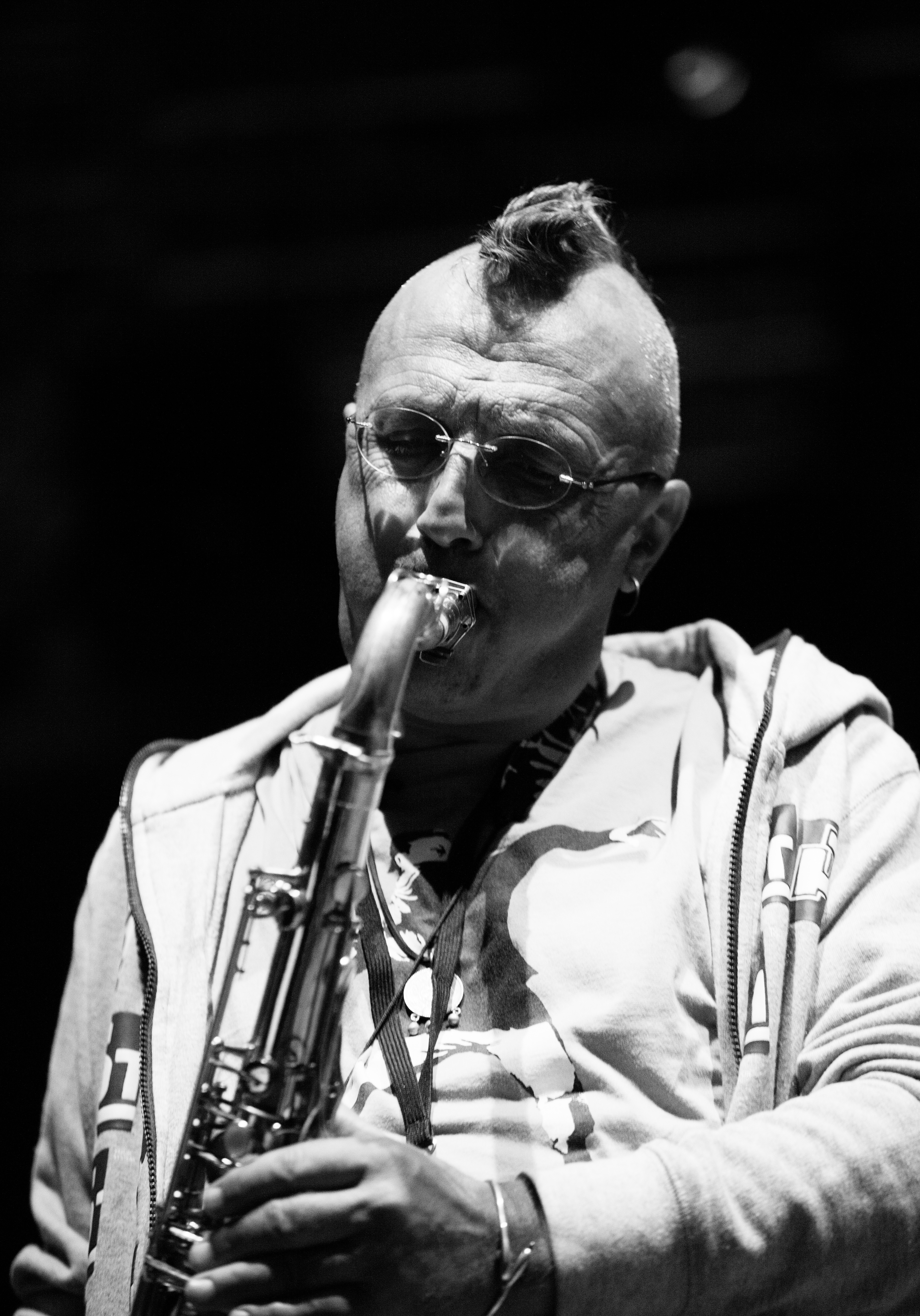 The saxophonist Daniele Sepe at the TFF Rudolstadt 2013 Il sassofonista Daniele Sepe in Rudolstadt 2013